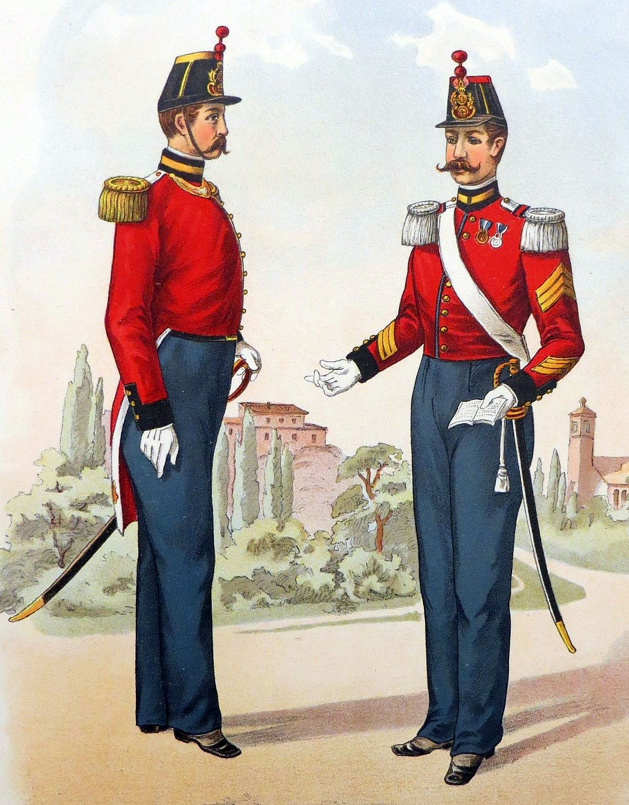 Uniform of the Grenadiers of the 4. Swiss Regiment in Naples 1845-1859 Captain and Field Sergeant in full dress wintertime